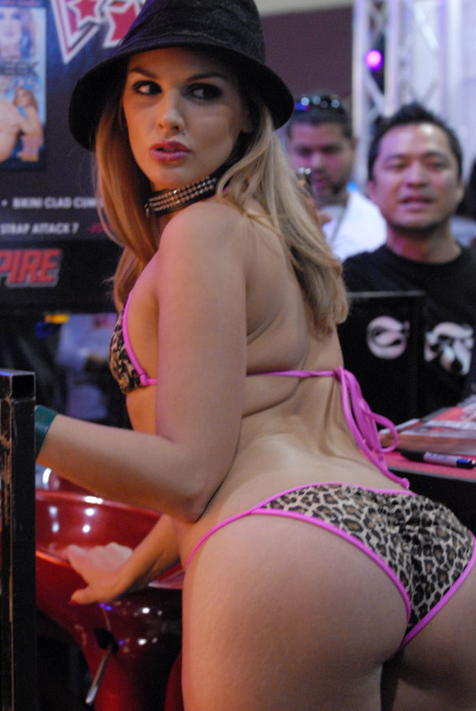 Brianna Love at Adult Entertainment Expo 2008